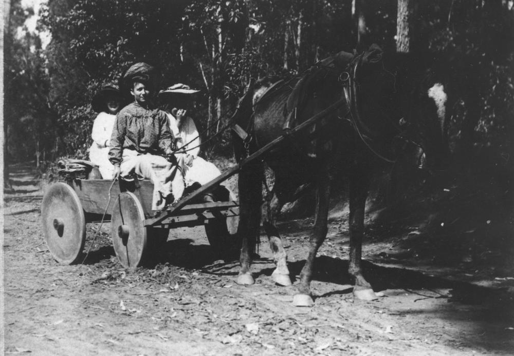 Party of three young women in a horsedrawn wagon on the road to Buderim Mountain, Queensland, 1900-1910. Three older girls in a horsedrawn cart on the road to Buderim Mountain in the early 1900s.